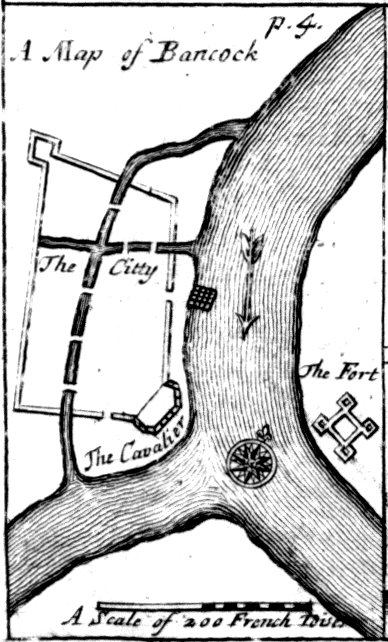 Map of 17th-century Bangkok, from an English translation of Simon de La Loubere's Du Royaume de Siam (A new historical relation of the kingdom of Siam)